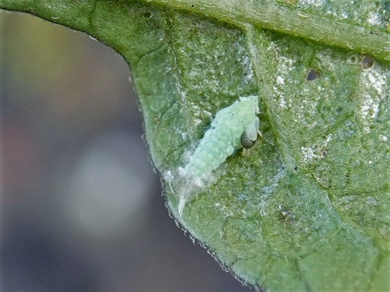 Torpedo Bug (Siphanta acuta)